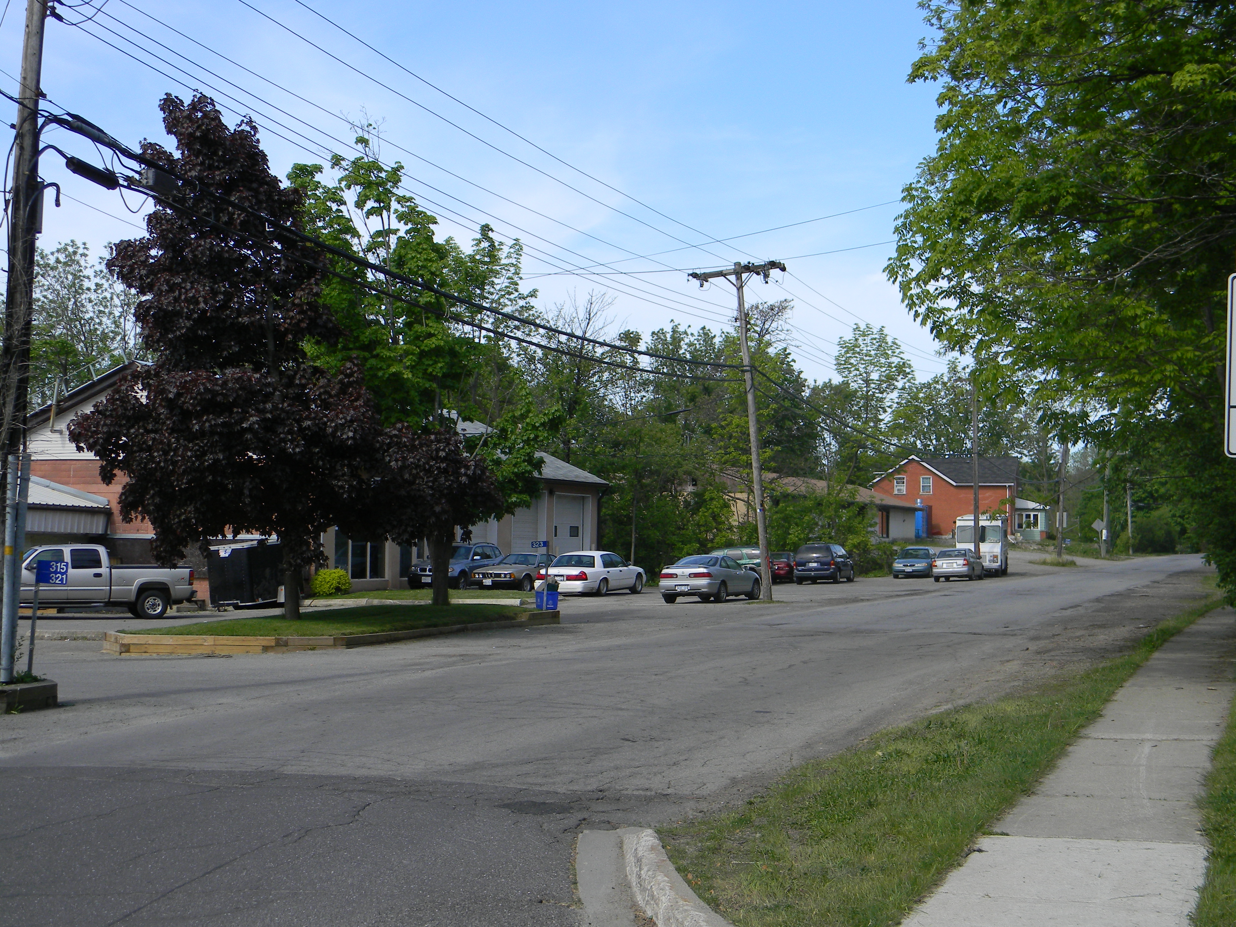 Greensville, West Flamborough, Hamilton, Ontario Canada